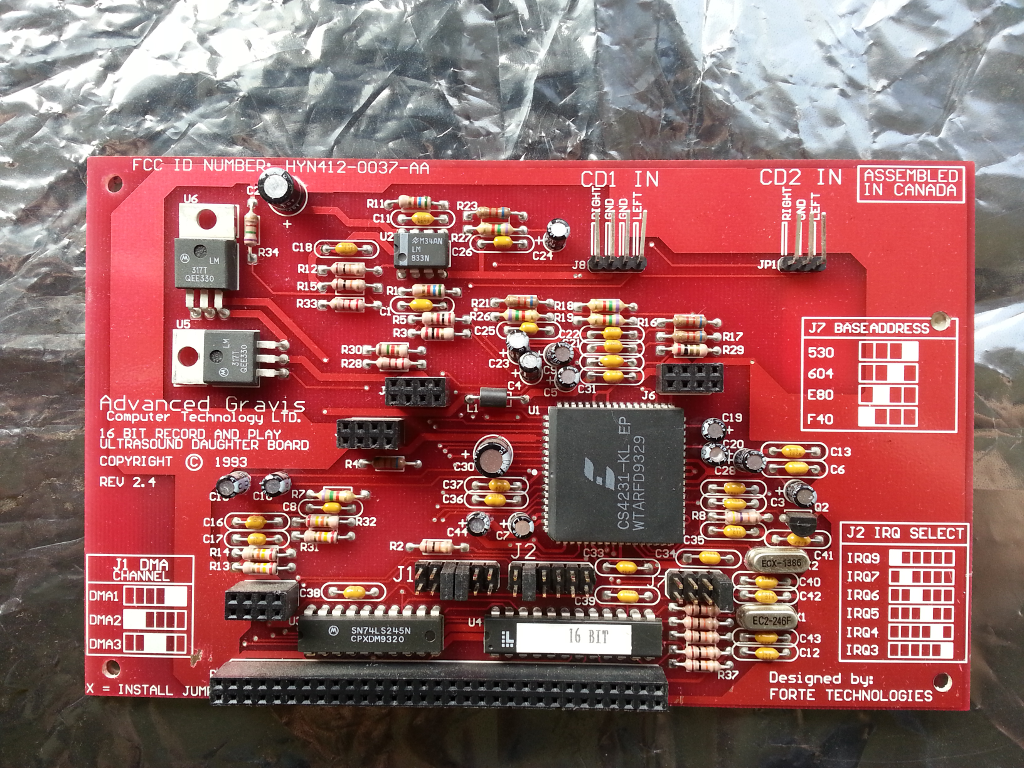 16-bit recording daughterboard for the Gravis Ultrasound Classic